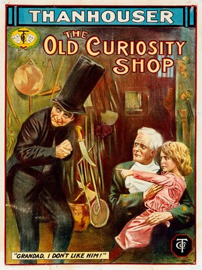 A poster from The Old Curiosity Shop from the Thanhouser Company. Released in January 1911, the poster is derived from a still by an unknown artist.